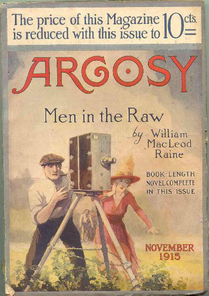 The Argosy, November 1915